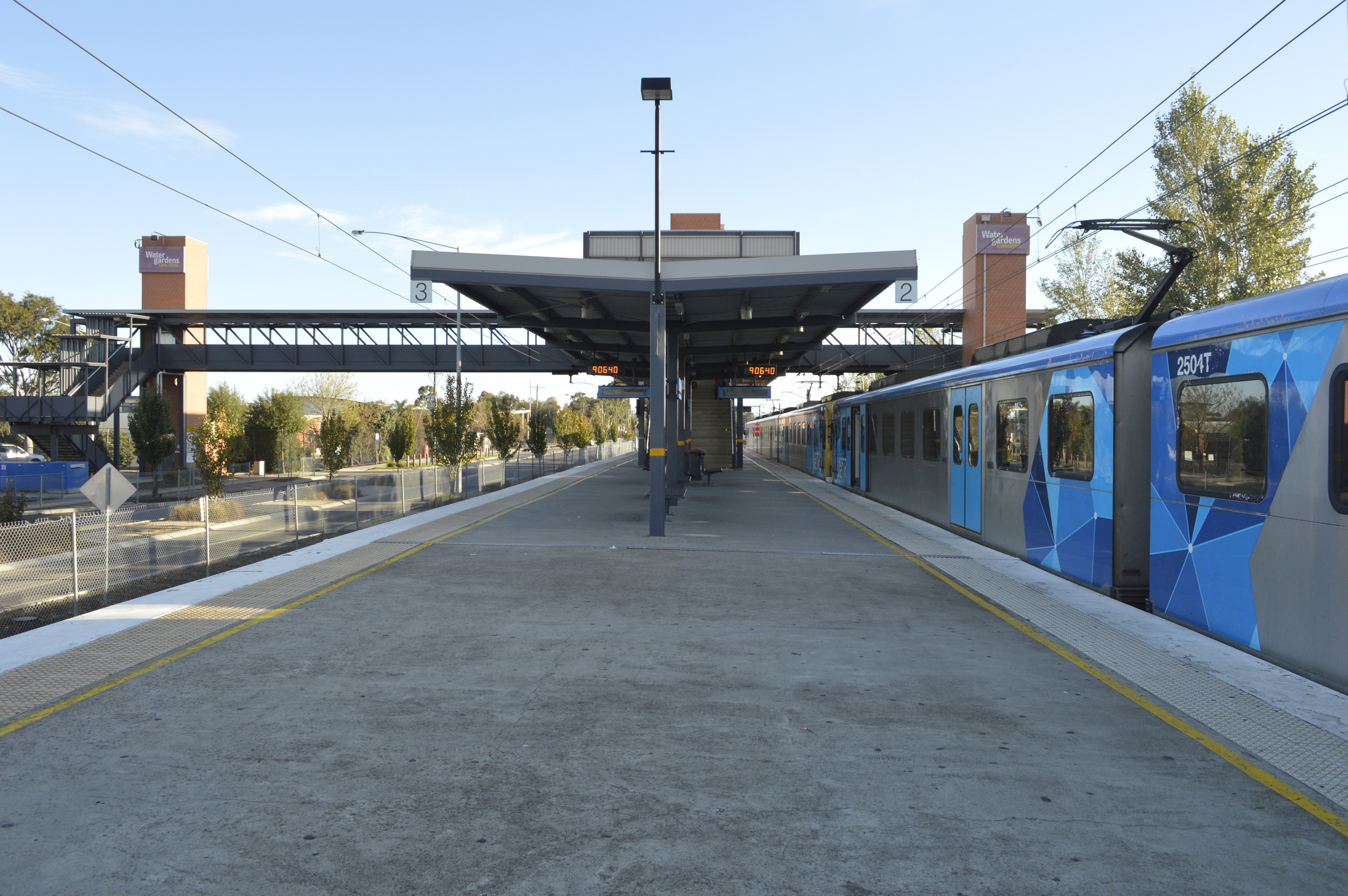 Terminating Siemens on the right.